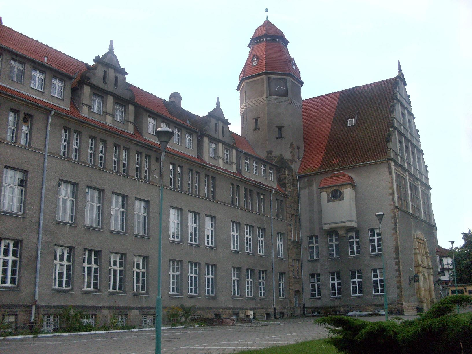 Gdańsk University. Faculty of Chemistry at Sobieskiego 18/19 Street in Gdańsk.